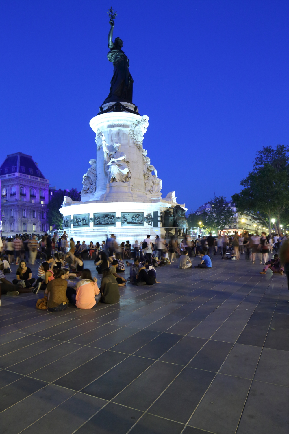 Place de la République at night